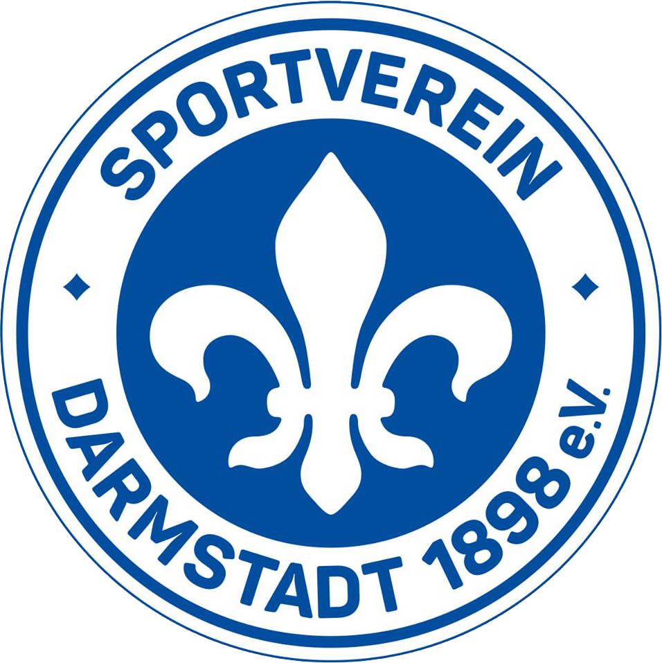 The new logo of Darmstadt 98